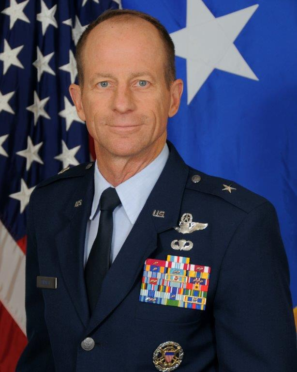 Brigadier General David R. Stilwell (United States Air Force), Deputy Director for Politico-Military Affairs for Asia in the Joint Staff, and former Defense Attaché to China, Commander of 35th Fighter Wing in Japan.